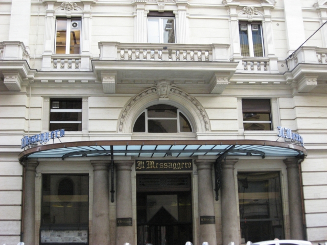 Il Messaggero headquarter.